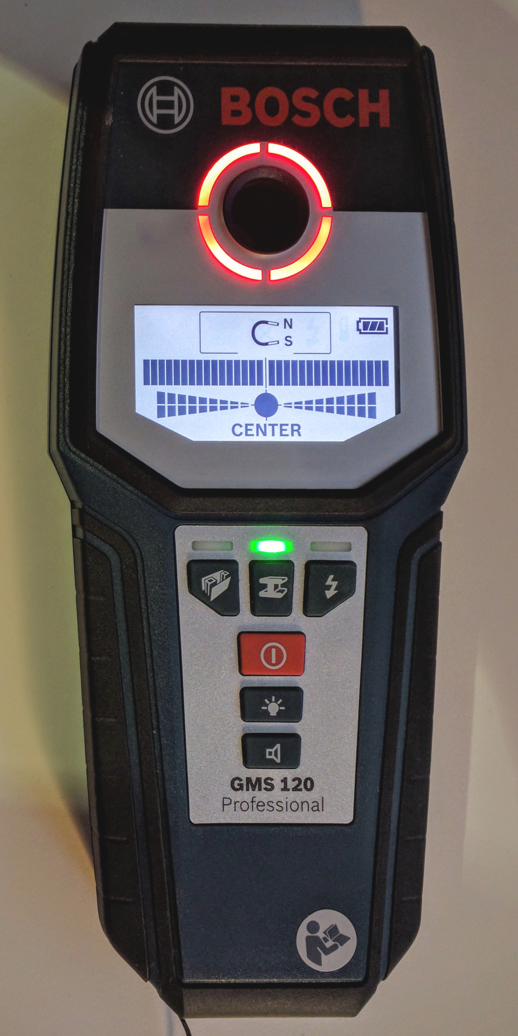 Stud finder Bosch GMS 120; shows a steel pipe beneath a wooden board